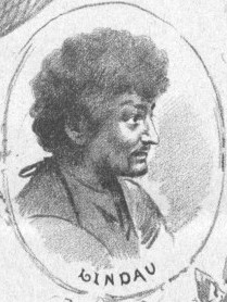 Portrait of Karl Lindau (1853-1934), Austrian actor.